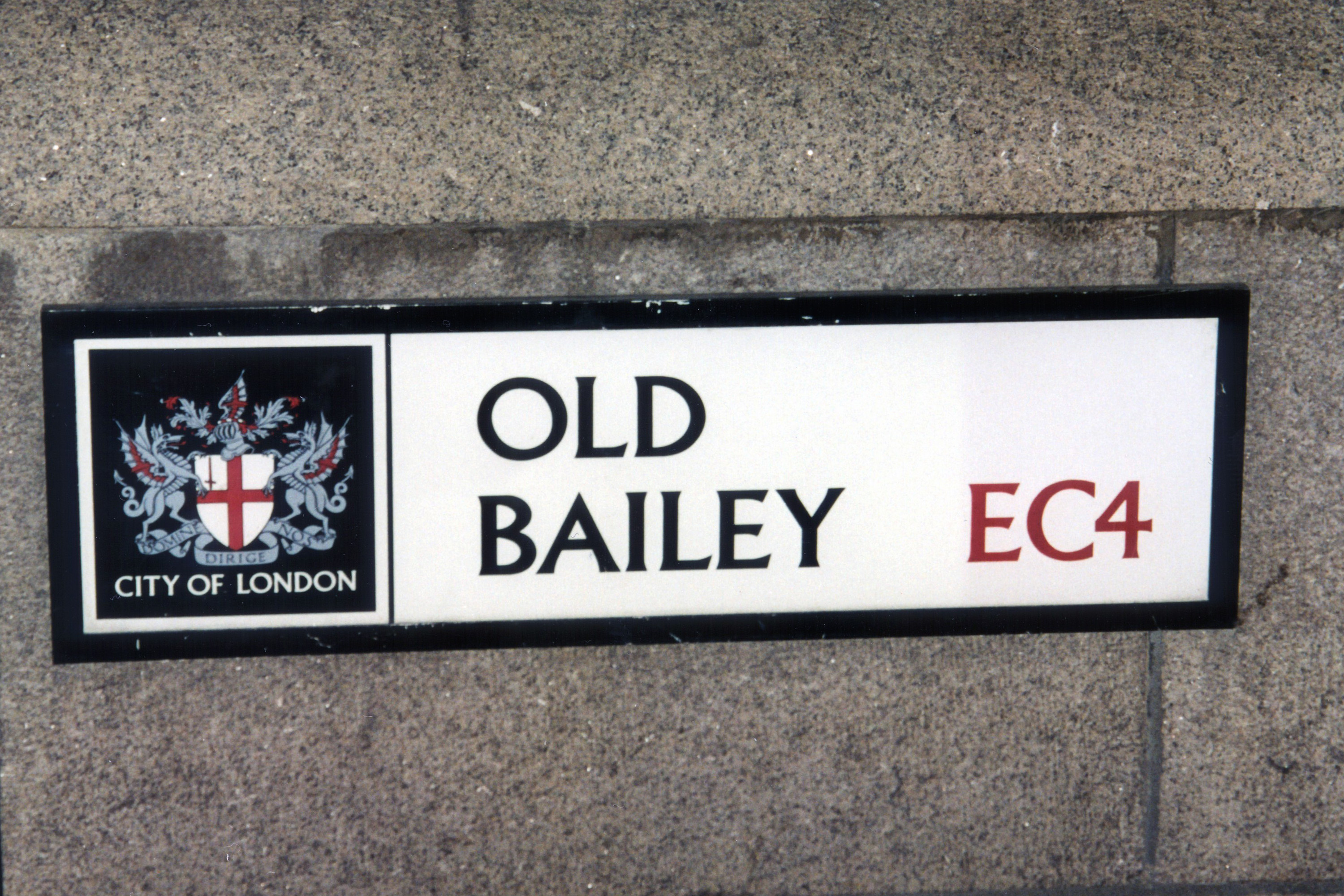 Old Bailey sign